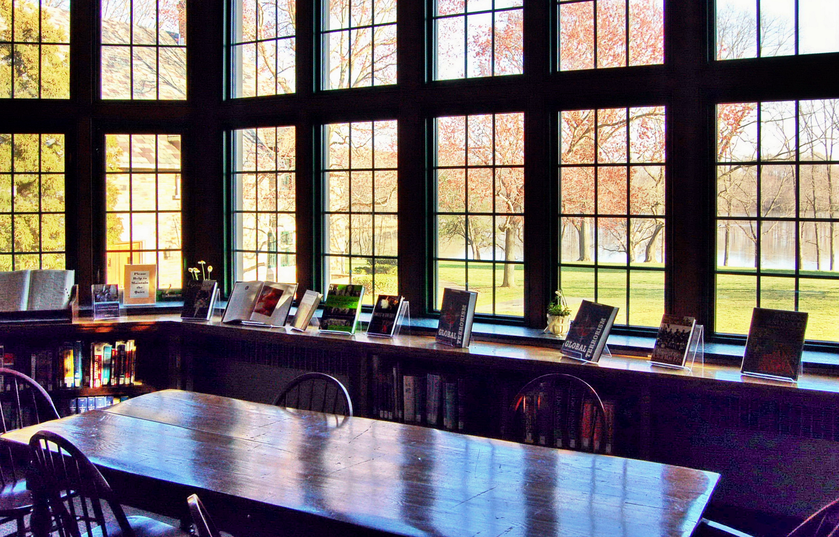 Created by me in 2006, St. Andrew's school. I am an employee of the SAS advancement department and therefore have permission of both parties (the author and the subject)